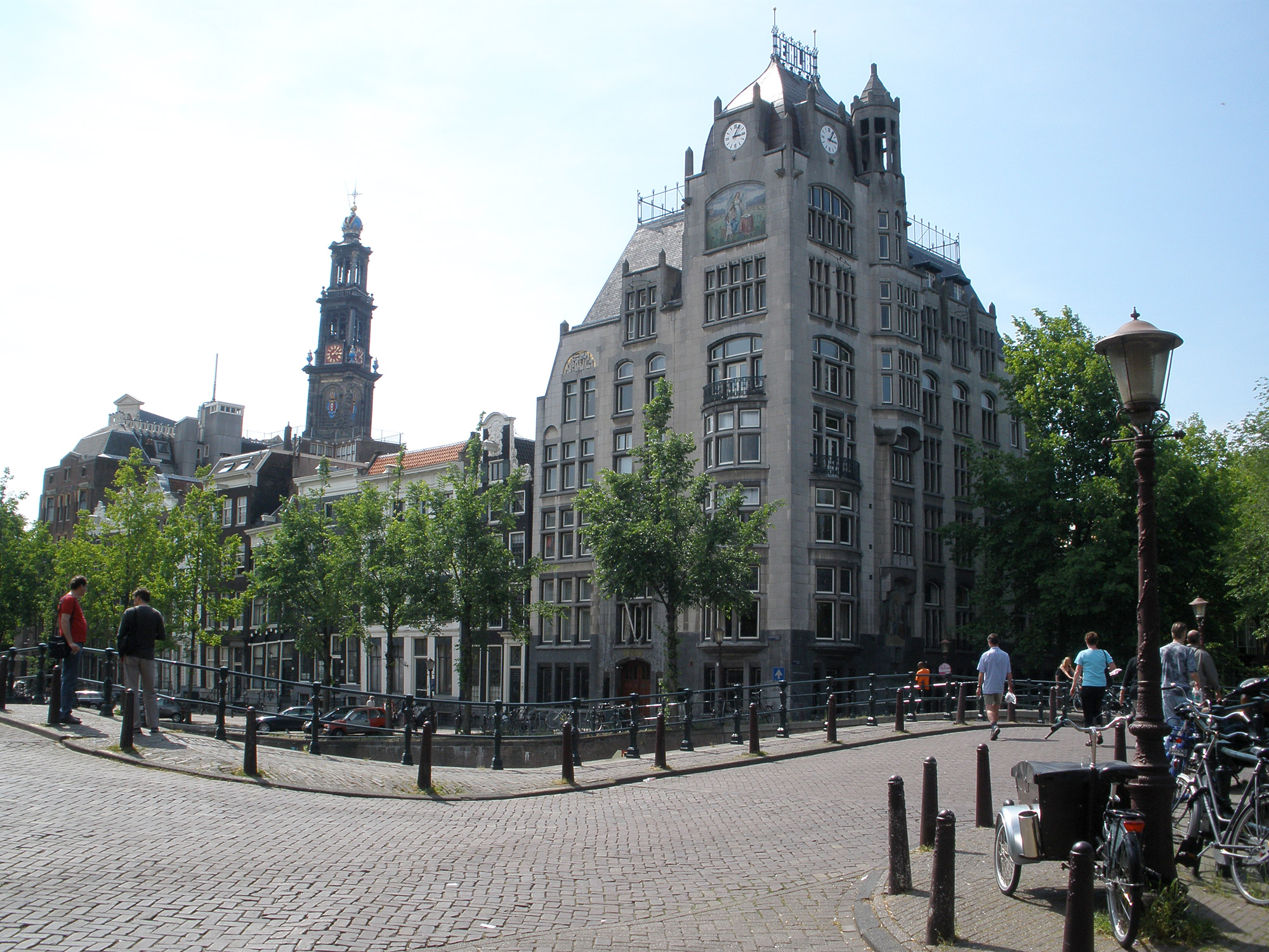 The Astoria building (1904/05) at Keizersgracht 174-176 in Amsterdam, at the intersection of the Keizersgracht and Leliegracht canals. This Jugendstil building was designed by Gerrit van Arkel and H.H. Baanders as the offices of the life insurance company Eerste Hollandsche Levensverzekerings Bank. In more recent years, it served as headquarters of Greenpeace. In 2001 the building received rijksmonument (national monument) status. Note the spire of the Westerkerk church on the left.